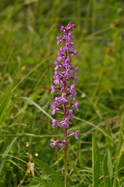 Fragrant Orchid (Gymnadenia conopsea) Beside the North Downs Way below the Buckland Hills